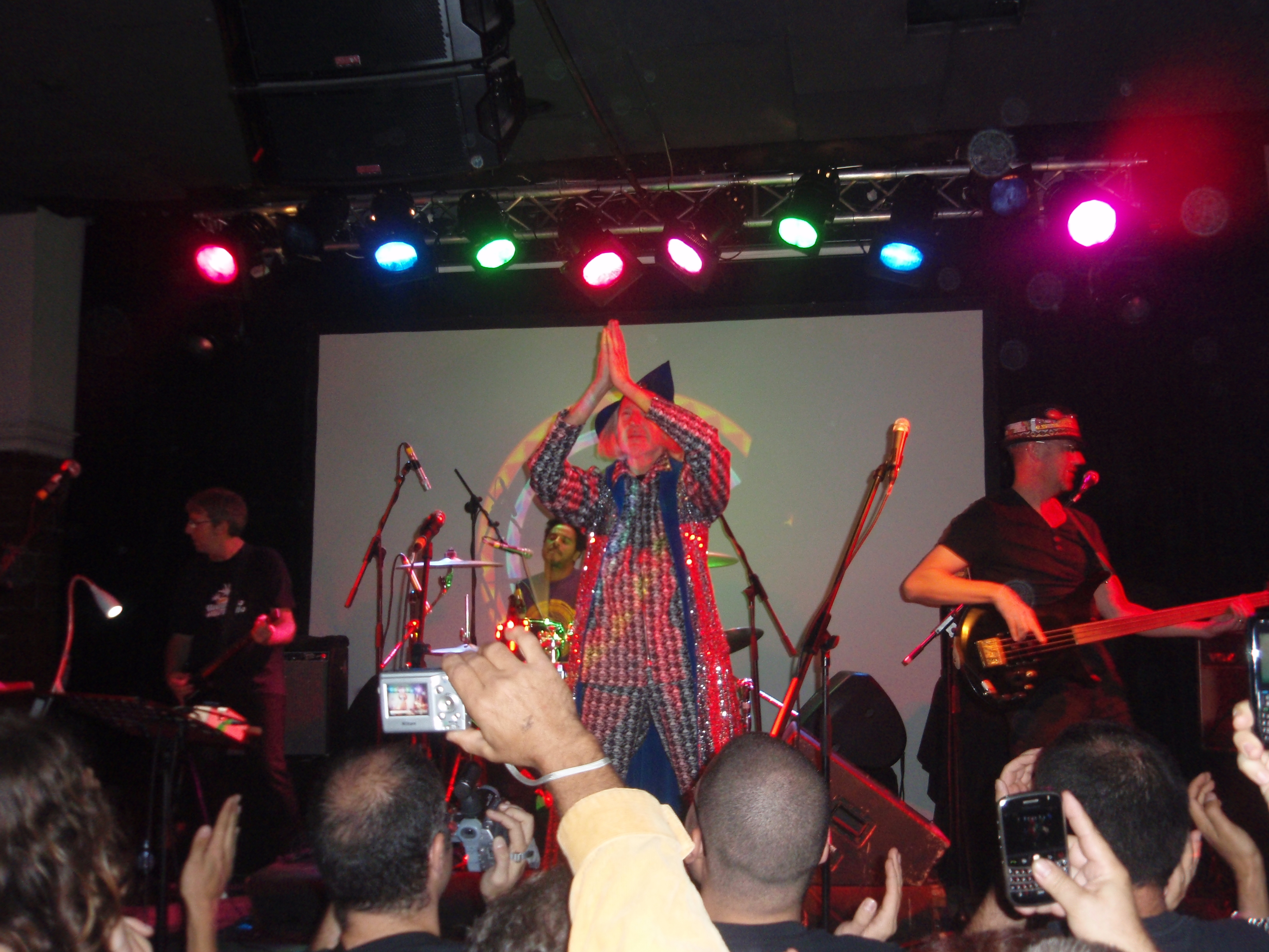 Gong, playing live in the Zappa club in Tel-Aviv. The 2032 tour.